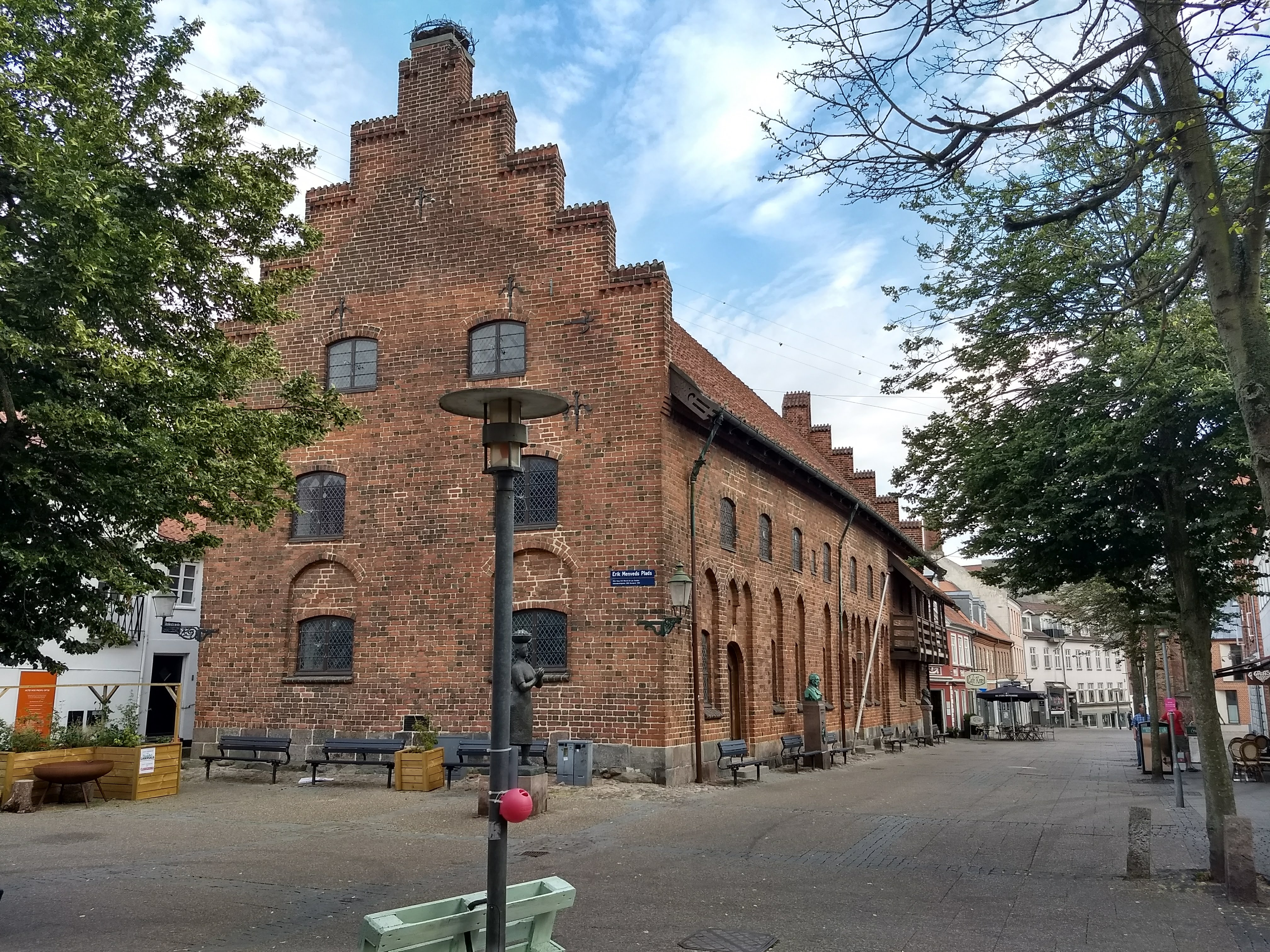 Helligåndshuset, Randers